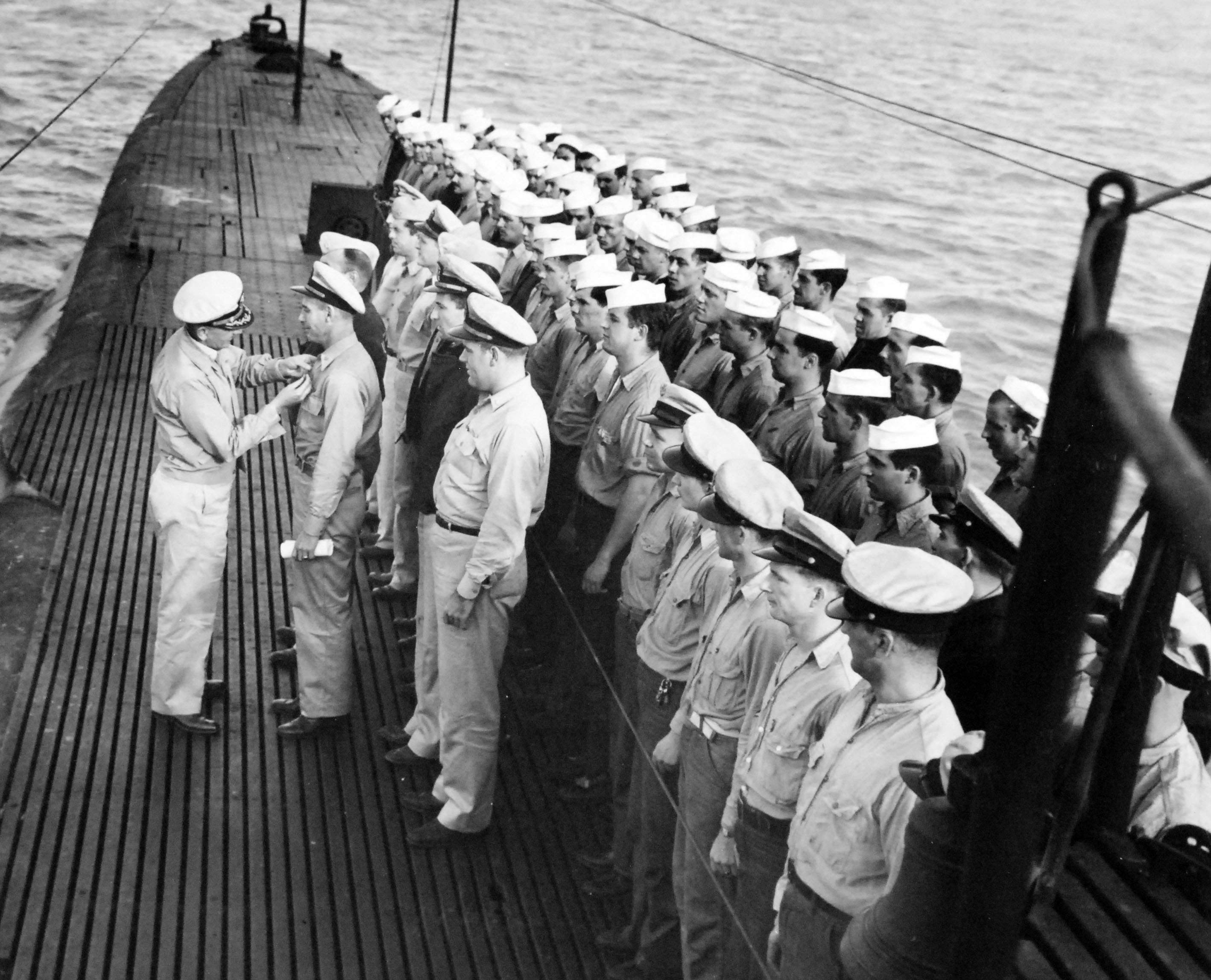 Commander Charles O. Triebel, USN, Commanding Officer of Snook (SS-279) receiving the Silver Star for gallantry on a war patrol on 23 December 1943.